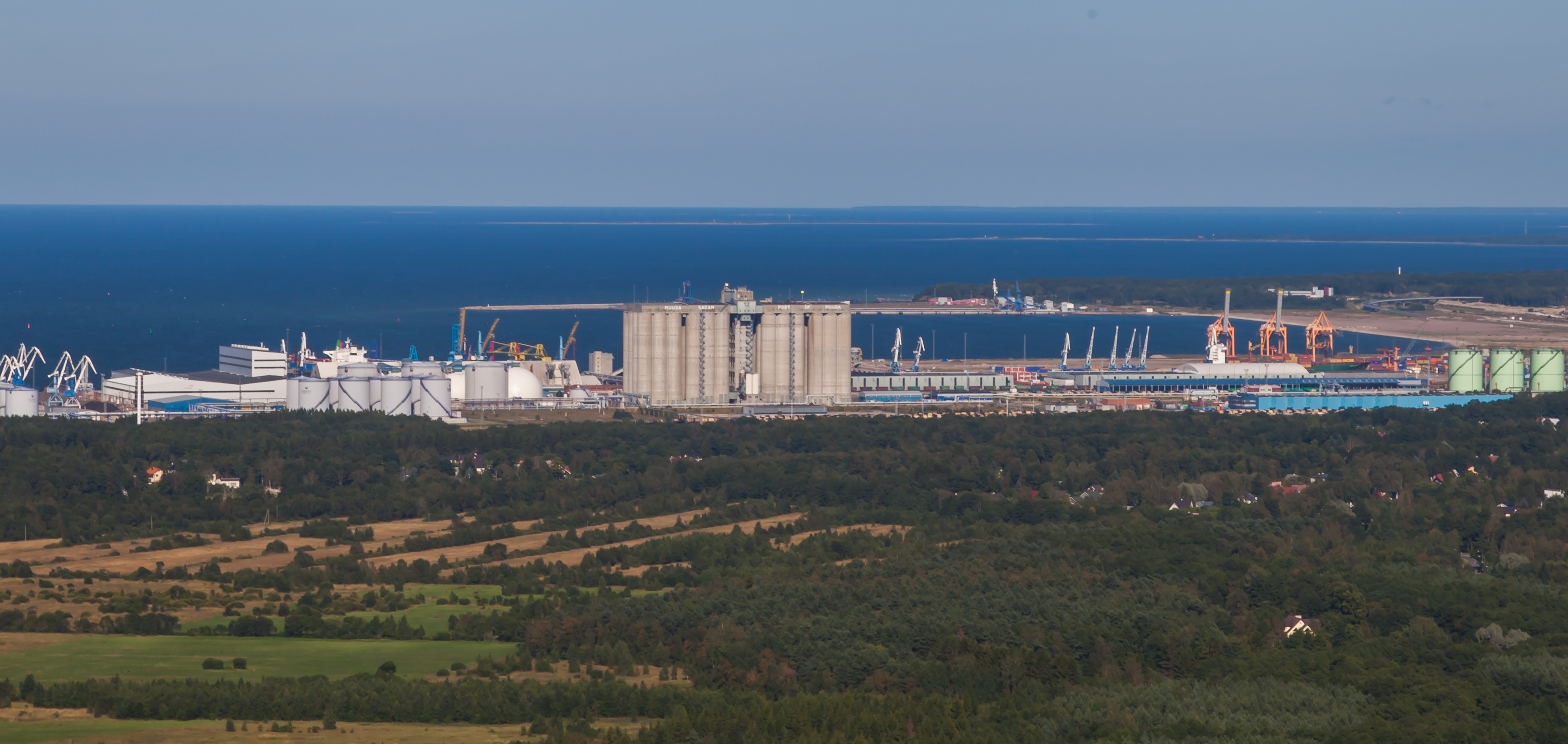 Port of Muuga, Estonia